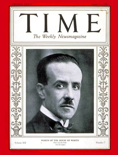 August 13, 1928, cover of Time magazine (Vol. 12 no. 7) featuring Jean-Charles Worth. NB: Although this has been identified as Jean-Philippe Worth, who retired from Worth in 1910 and died in 1926, the man in the photograph is his nephew and successor, Jean-Charles Worth.